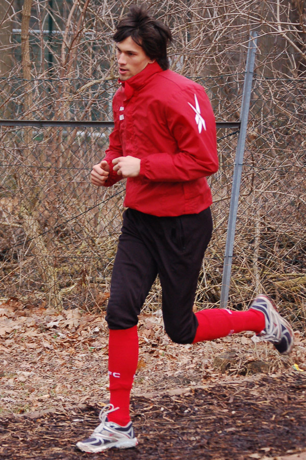 Croatian footballer Miro Varvodic.